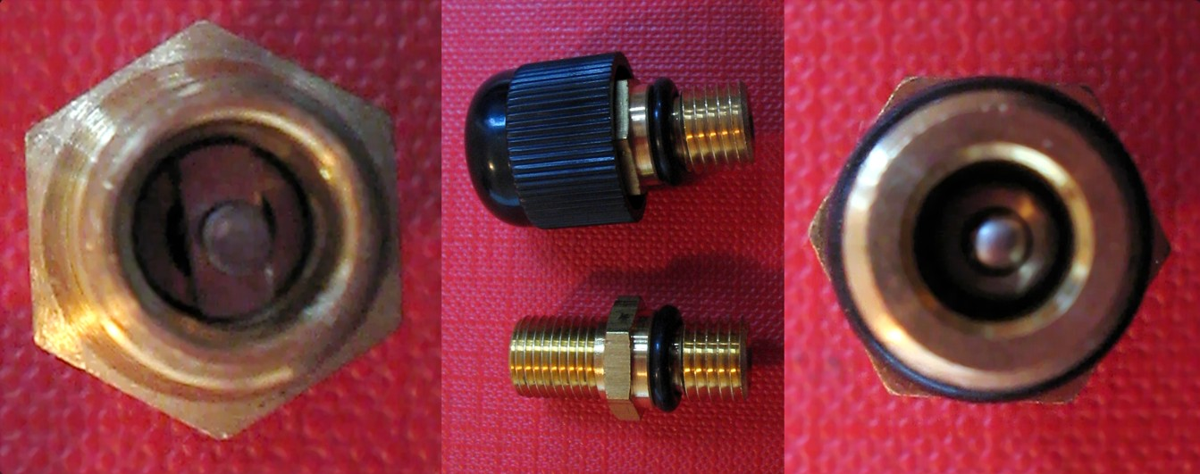 Schrader valve threaded spindle M8x1 brass high-pressure shock absorbers for use in rechargeable separate tank